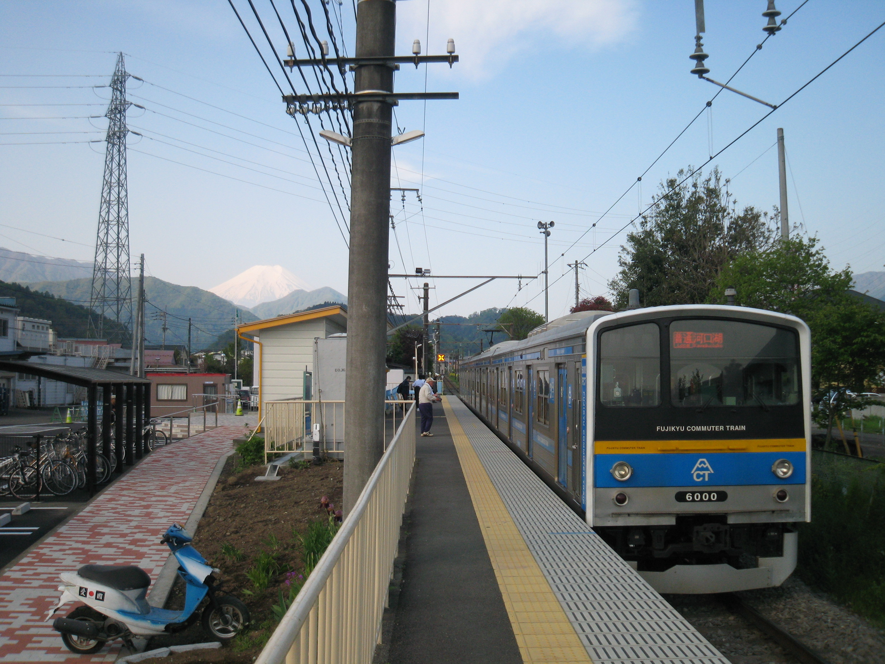 Akasaka Station on the Fuji Kyuko